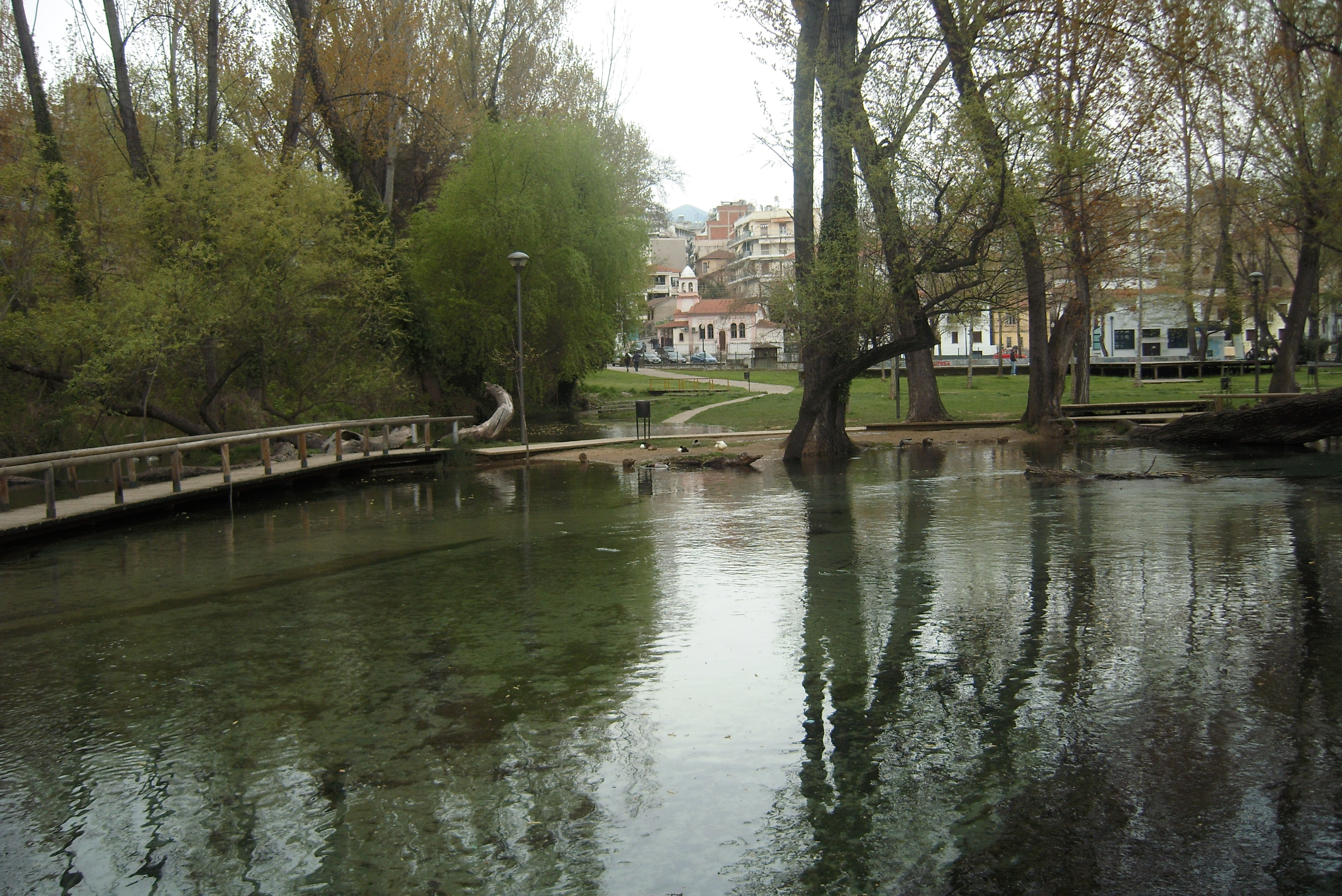 Agia Varvara Park and Saint Barbara Church in Drama